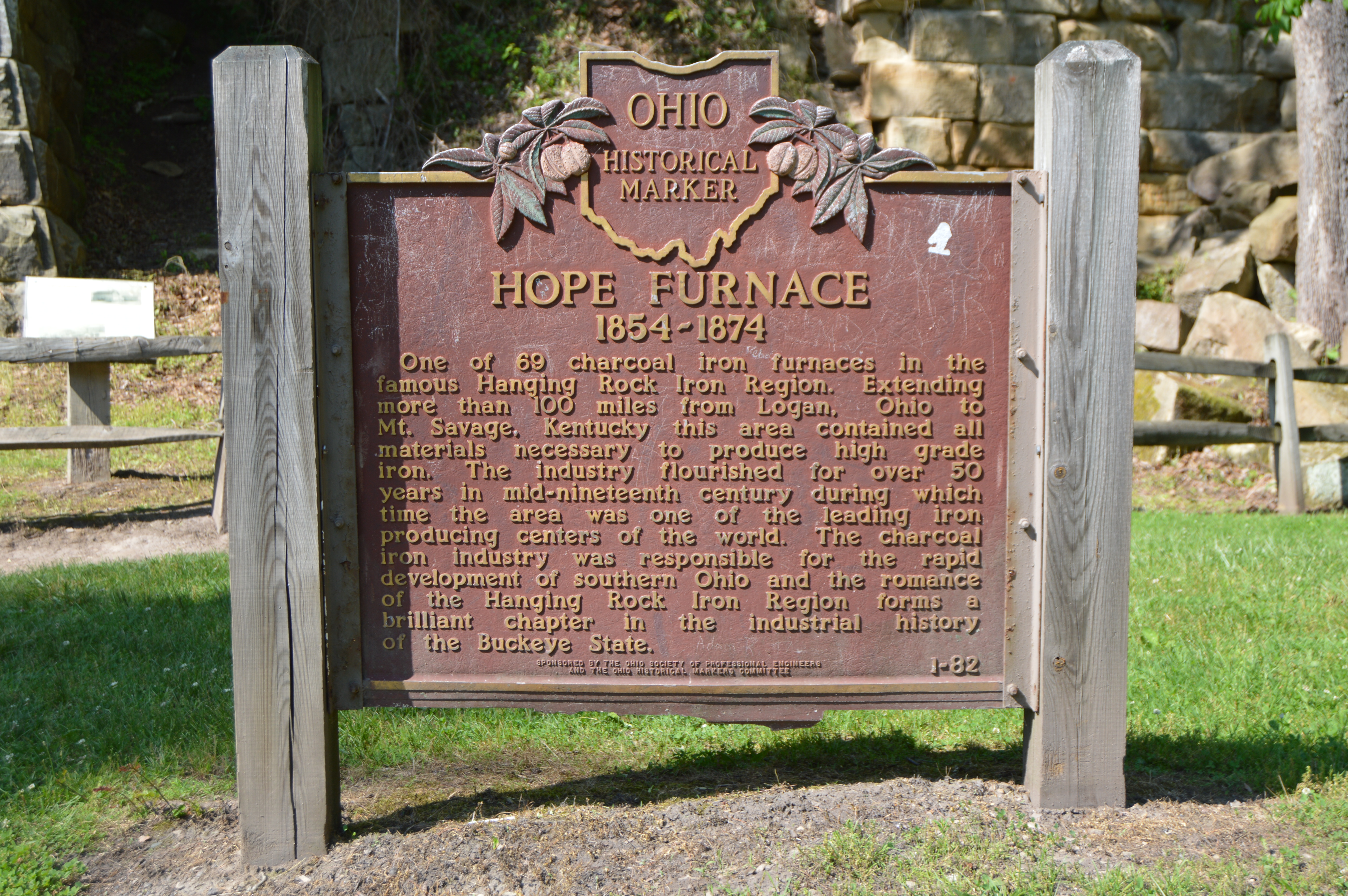 A historical marker in front of Hope Furnace at Lake Hope State Park, located southwest of Nelsonville in Brown Township, Vinton County, Ohio, United States. The marker was placed in 1960.